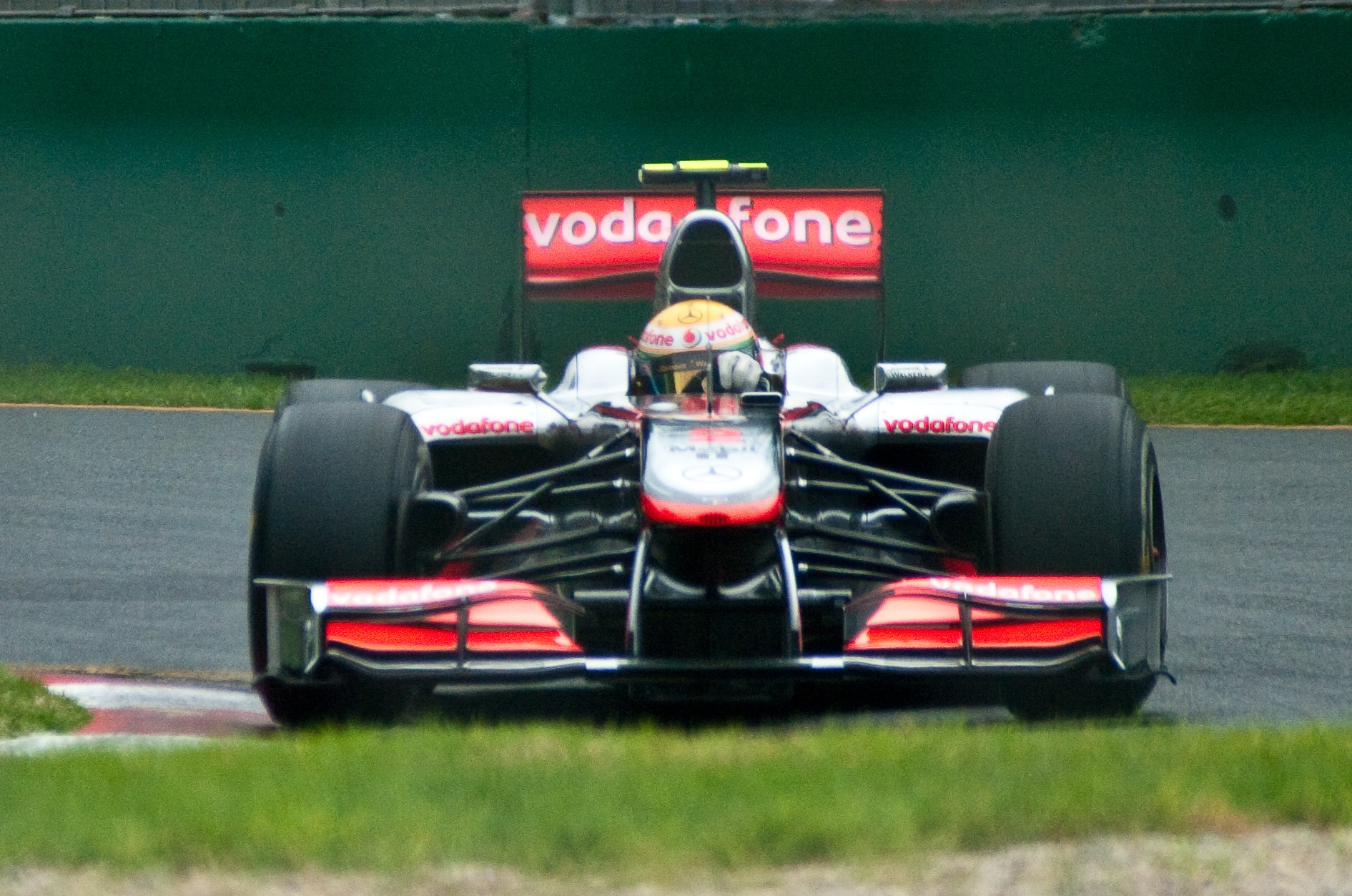 Hamilton in Melbourne